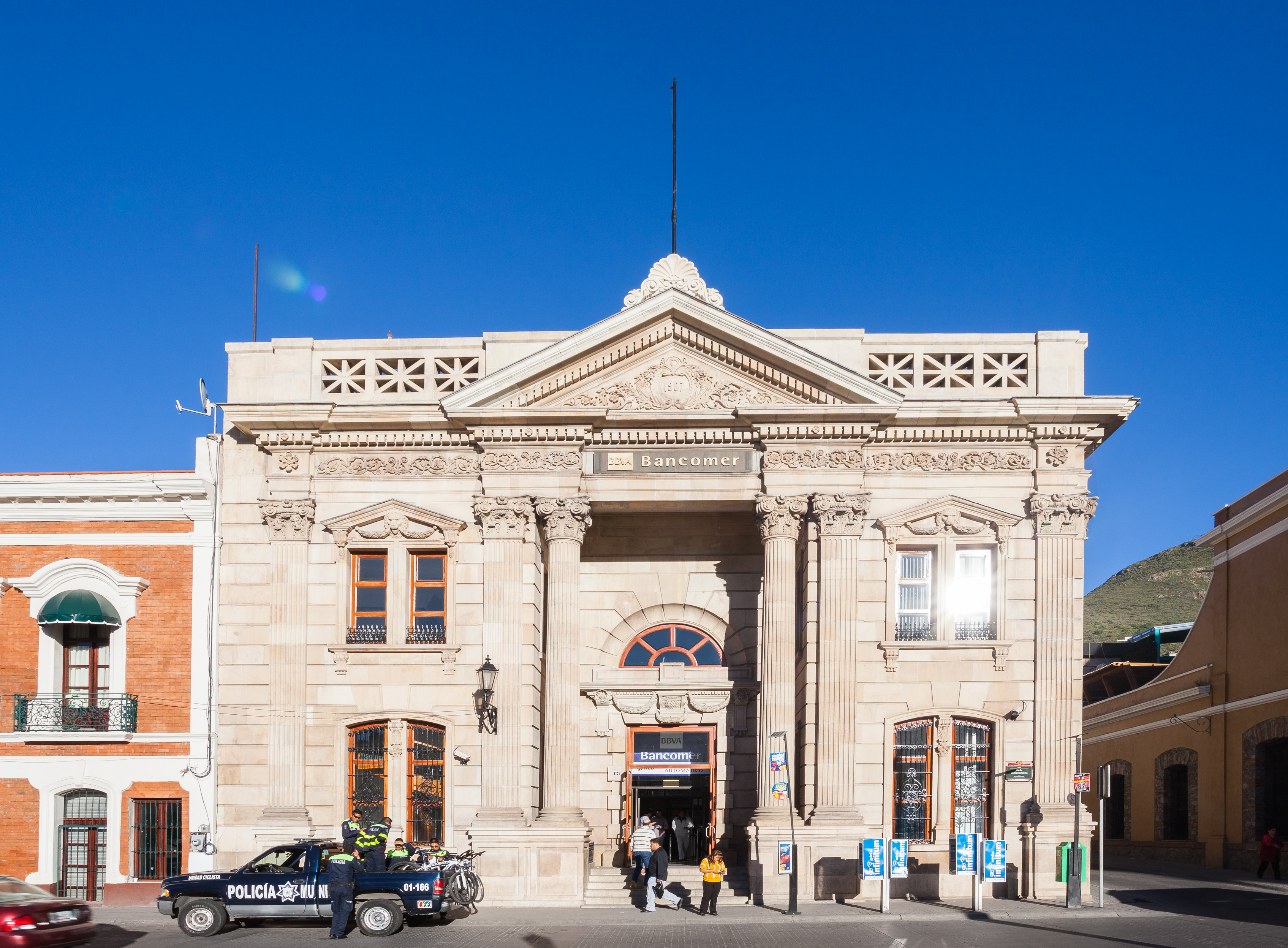 Independence Square, Pachuca, Hidalgo, Mexico